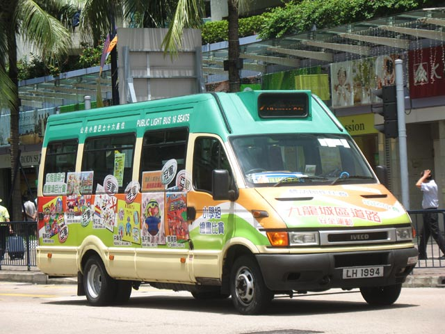 Hong Kong Green Minibus Kowloon 2A LH1994-1. Iveco Daily Mk3.